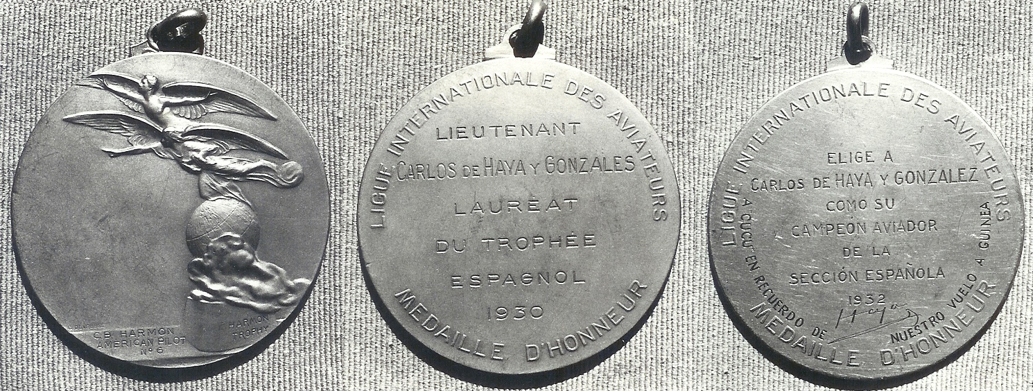 Foto obtenida de álbum familar. Photo took from a own family album.